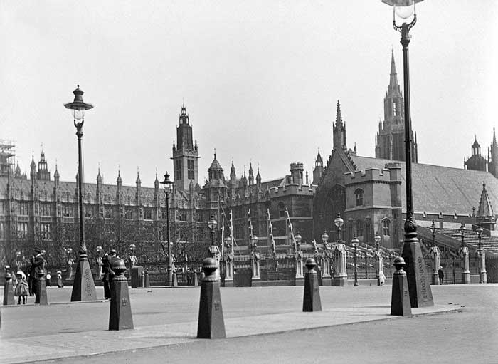 Palace Of Westminster, Parliament Square. A view showing the Palace of Westminster behind a grandstand being erected for the coronation of King George V.